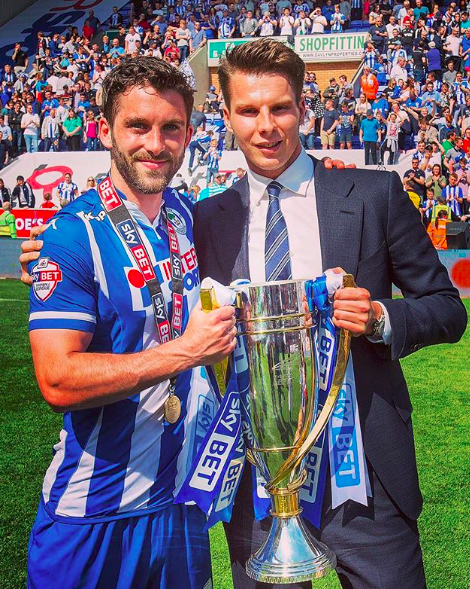 David Sharpe (Chairman) and Will Grigg (Wigan Athletic striker) with League One trophy after finishing in first place in the 2015/16 season